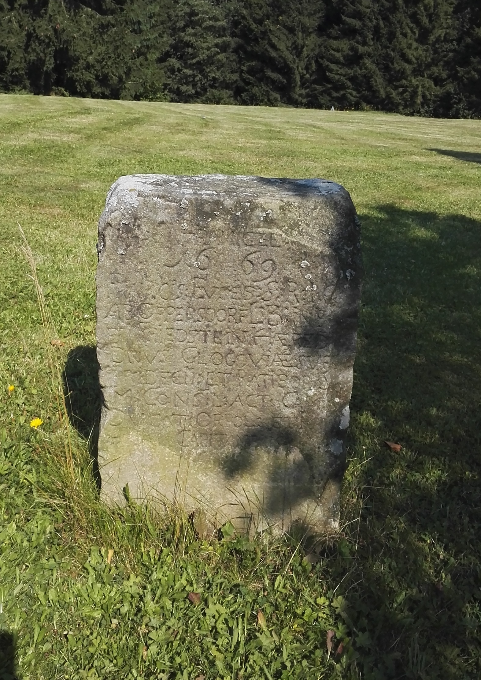 Staré Hamry. Boundary stone from 1669.